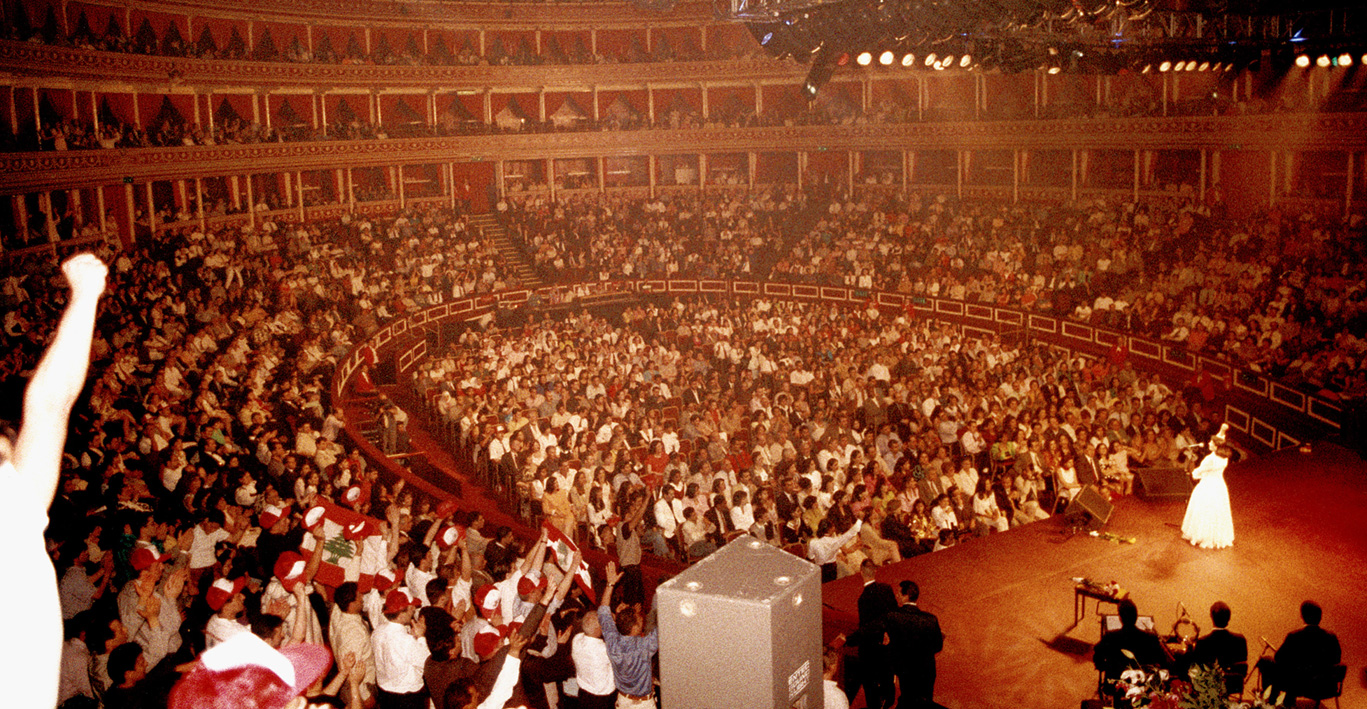 Majida on stage during her concert at Royal Albert Hall in London in 1995.